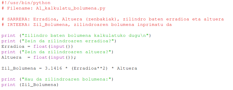 Example of running a simple program in Python that calculates a formula with some values (the volume of a cylinder)